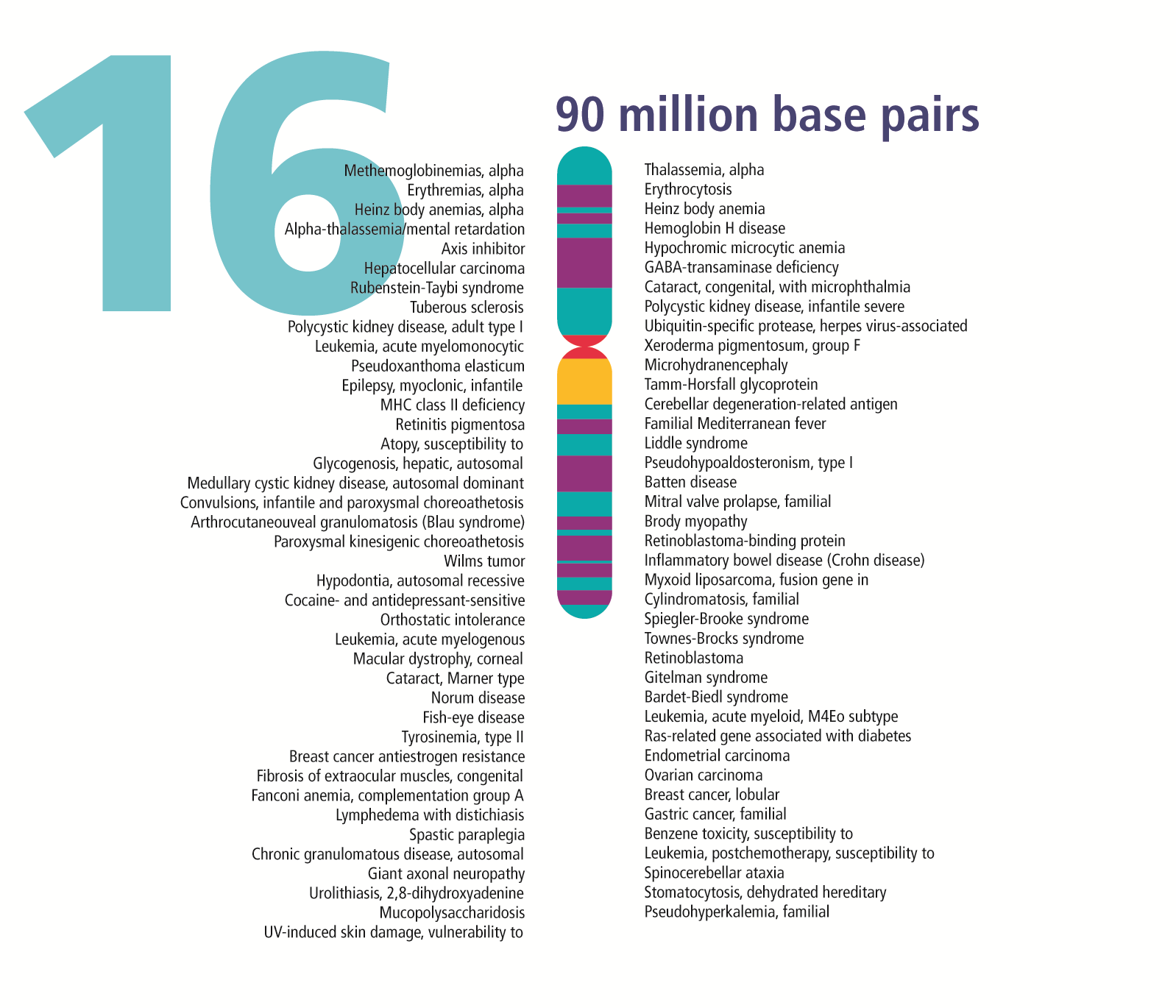 Ideogram of human chromosome 16. Selected genes, traits, and disorders associated with the chromosome listed.